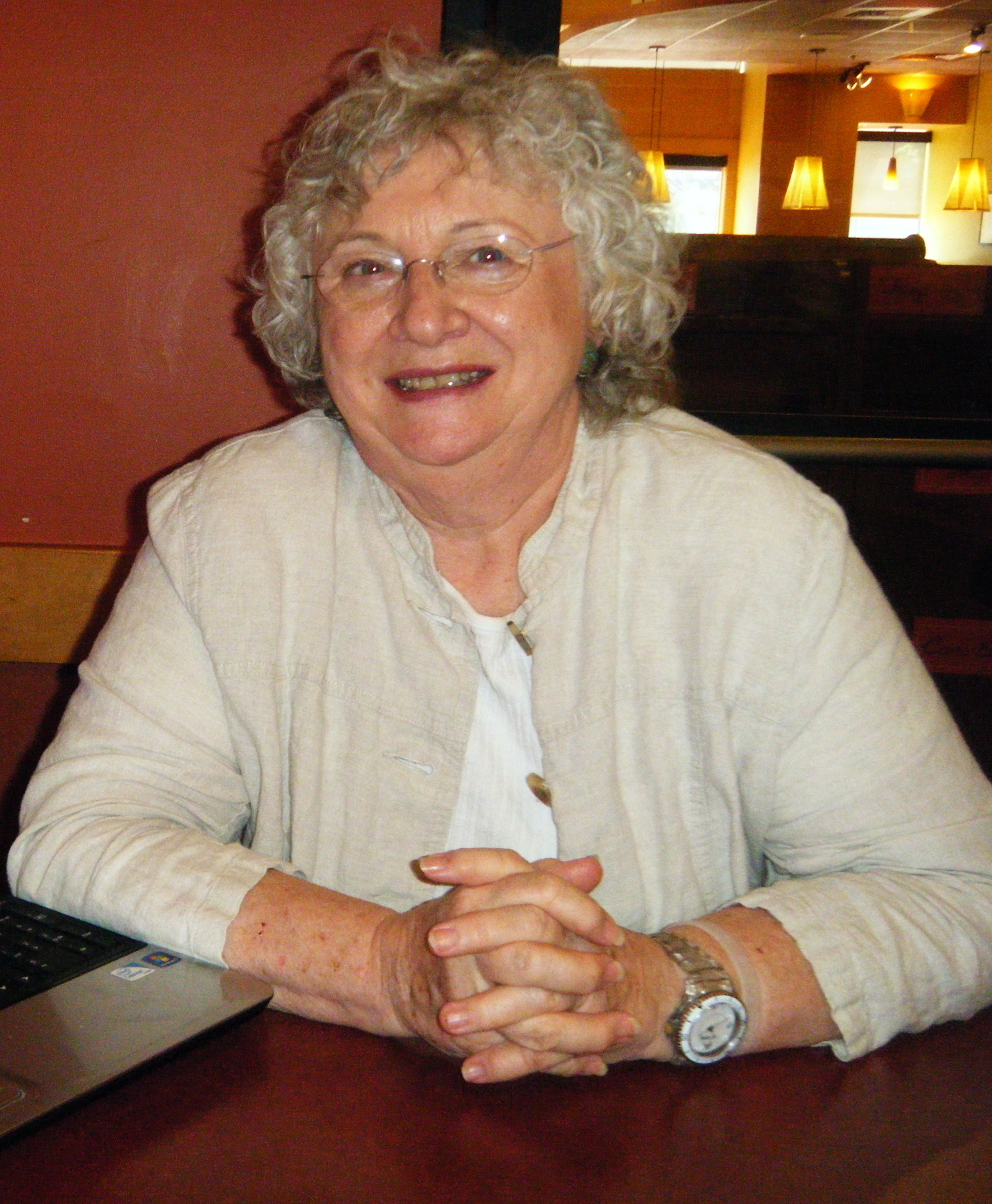 A photo taken during lunch with Marian at the Panera Bread restaurant in Evanston, Illinois